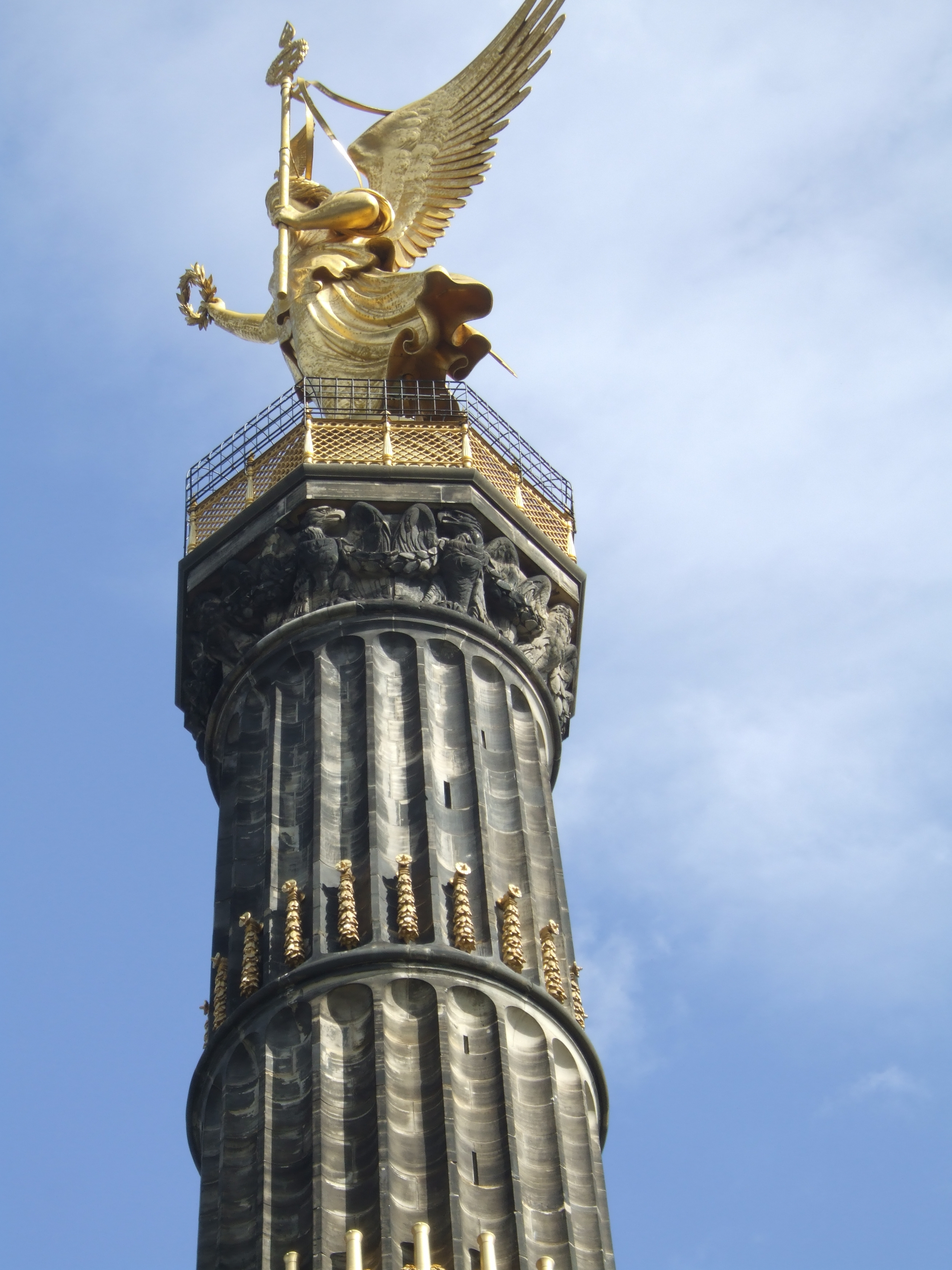 Top of Column of Victory in Berlin